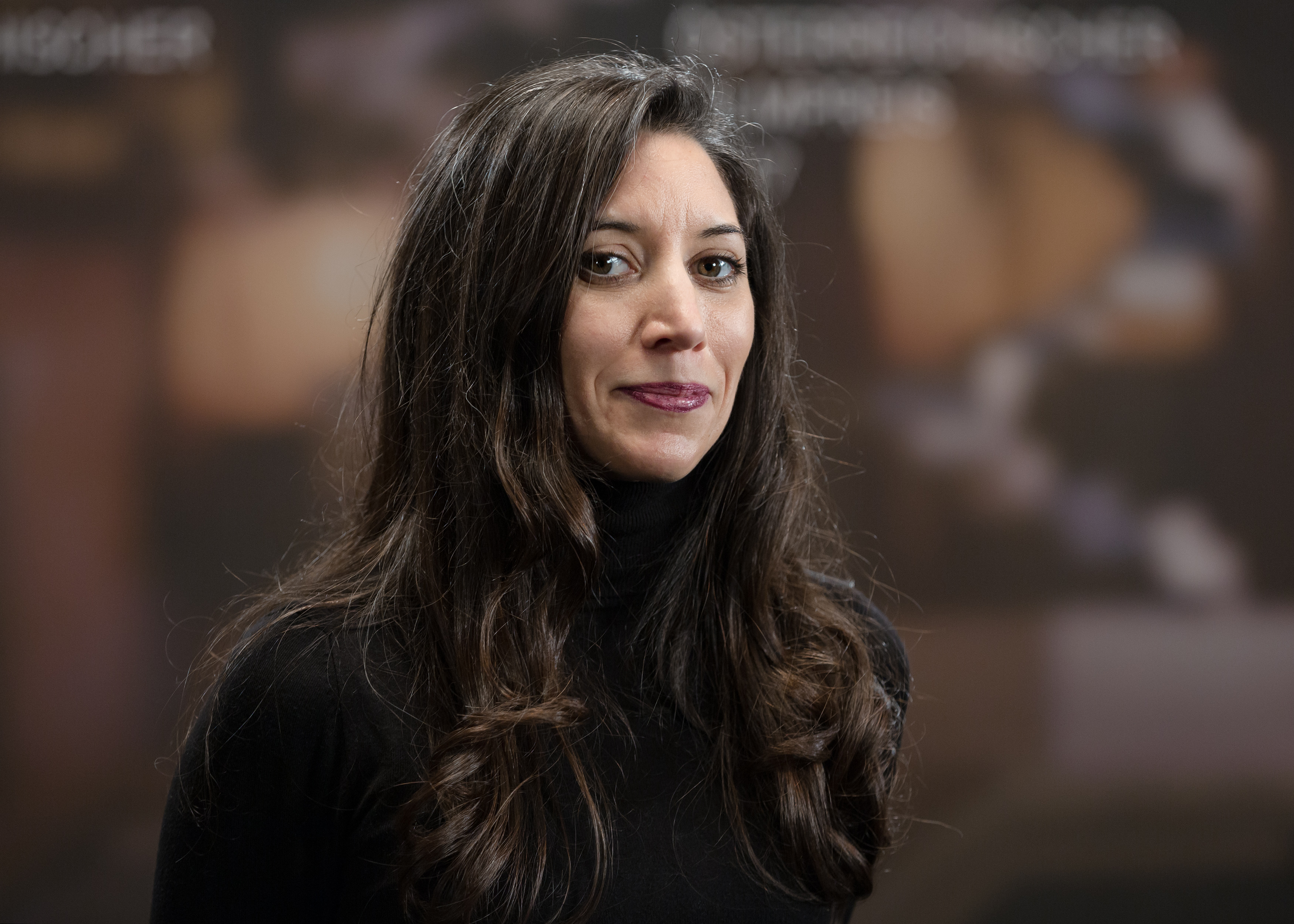 Luz Olivares Capelle, director and writer of Forest of Echoes, at the Austrian Film Awards 2017 (Rathaus, Vienna,Austria).